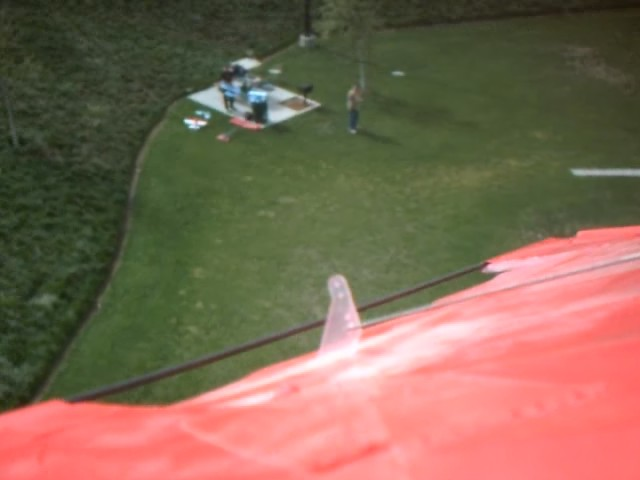 Authors: Chuck Wettish and Bob Lozonne This photo is a still-shot from a video taken from our park flyer aircraft in a public park. The camera is mounted on top of the wing pointed back/left. The people in the photo are the authors. This was a spontaneous filming. We just shoved the camera under the rubber-bands that hold the wing on, pressed record, and took off! We plan an under-mounted camera next. There is no shortage of power when using LiPoly batteries and brushless motors. This plane was put together with the cheapest electronics and motor available and it easily loops carrying the camera. It also quickly climbs quite high, I didn't want to post a high-alt picture because it shows many backyards and such.